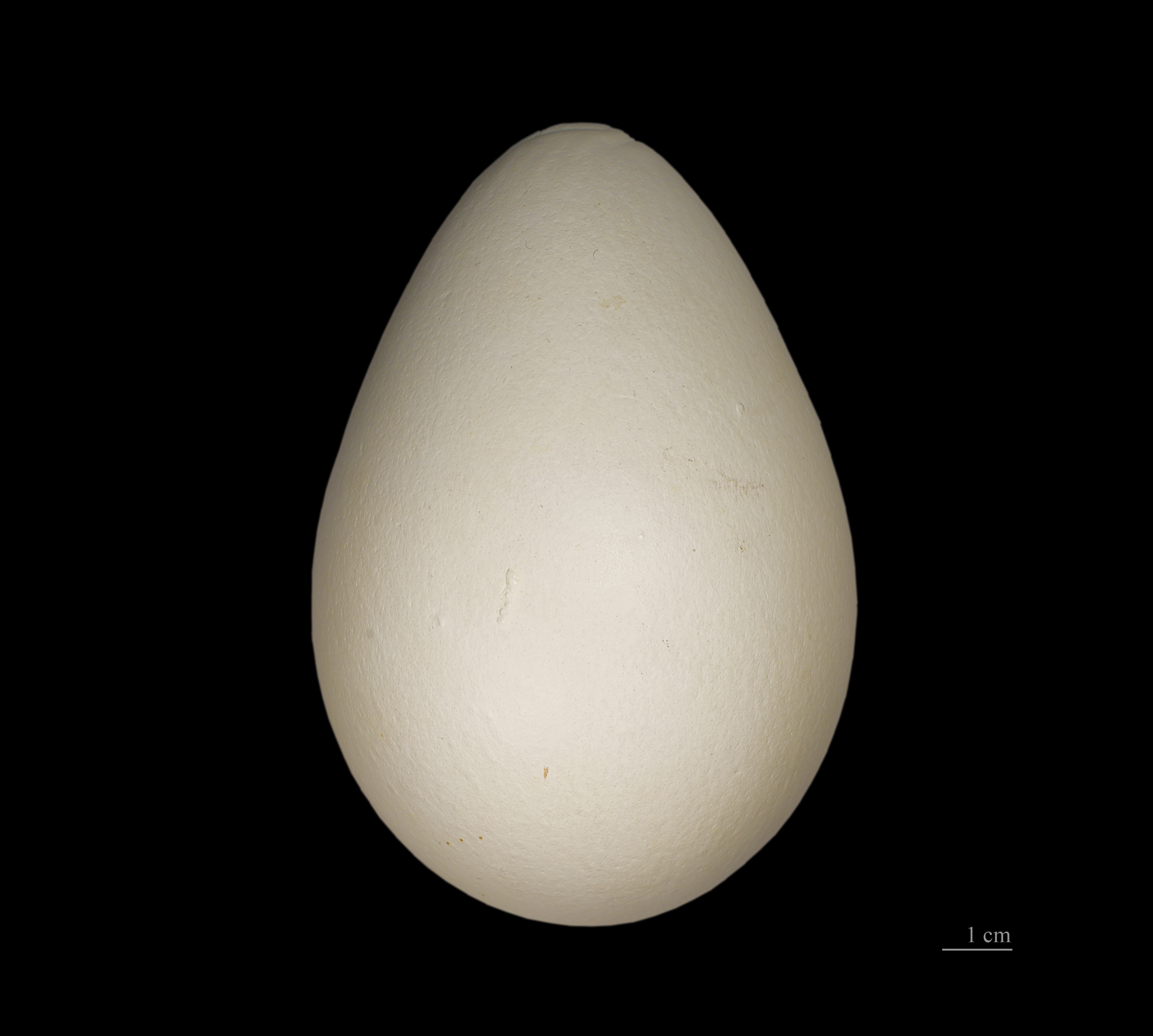 Egg of King Penguin. Collection of Jacques Perrin de Brichambaut. Locality: Île de l'Est Crozet Islands, France.